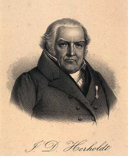 Johan Daniel Herholdt (1764-1836), Danish physician, professor of medicine, rector of the University of Copenhagen